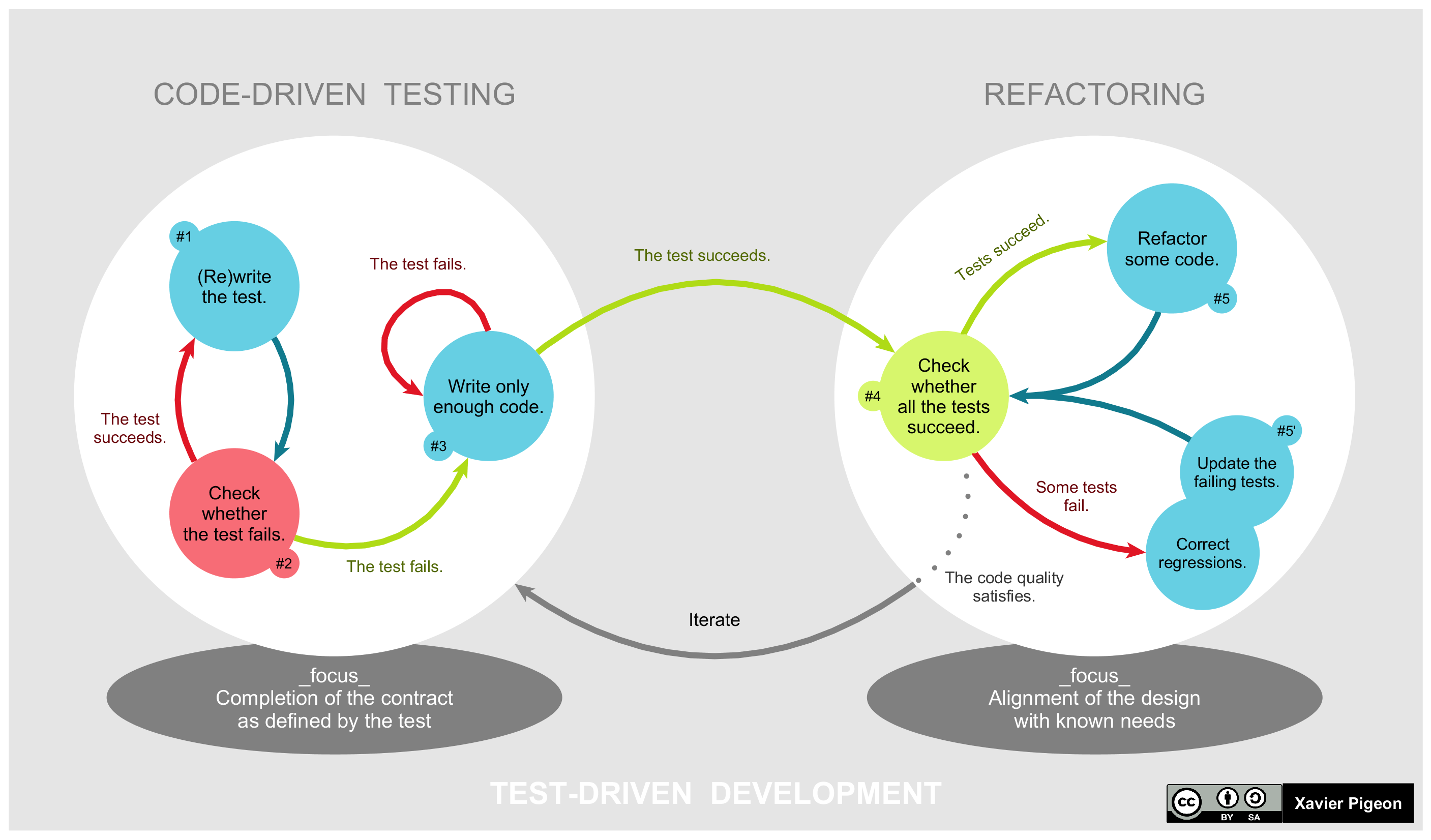 Lifecycle of the Test-Driven Development method